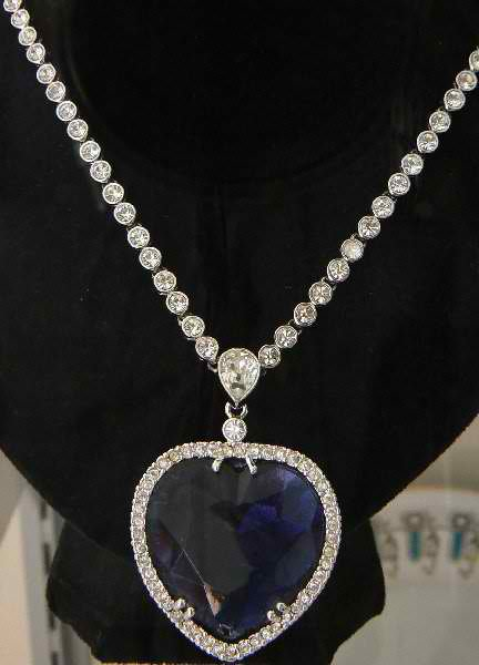 Celine Dion wearing this necklace in 1998 Academy Awards.